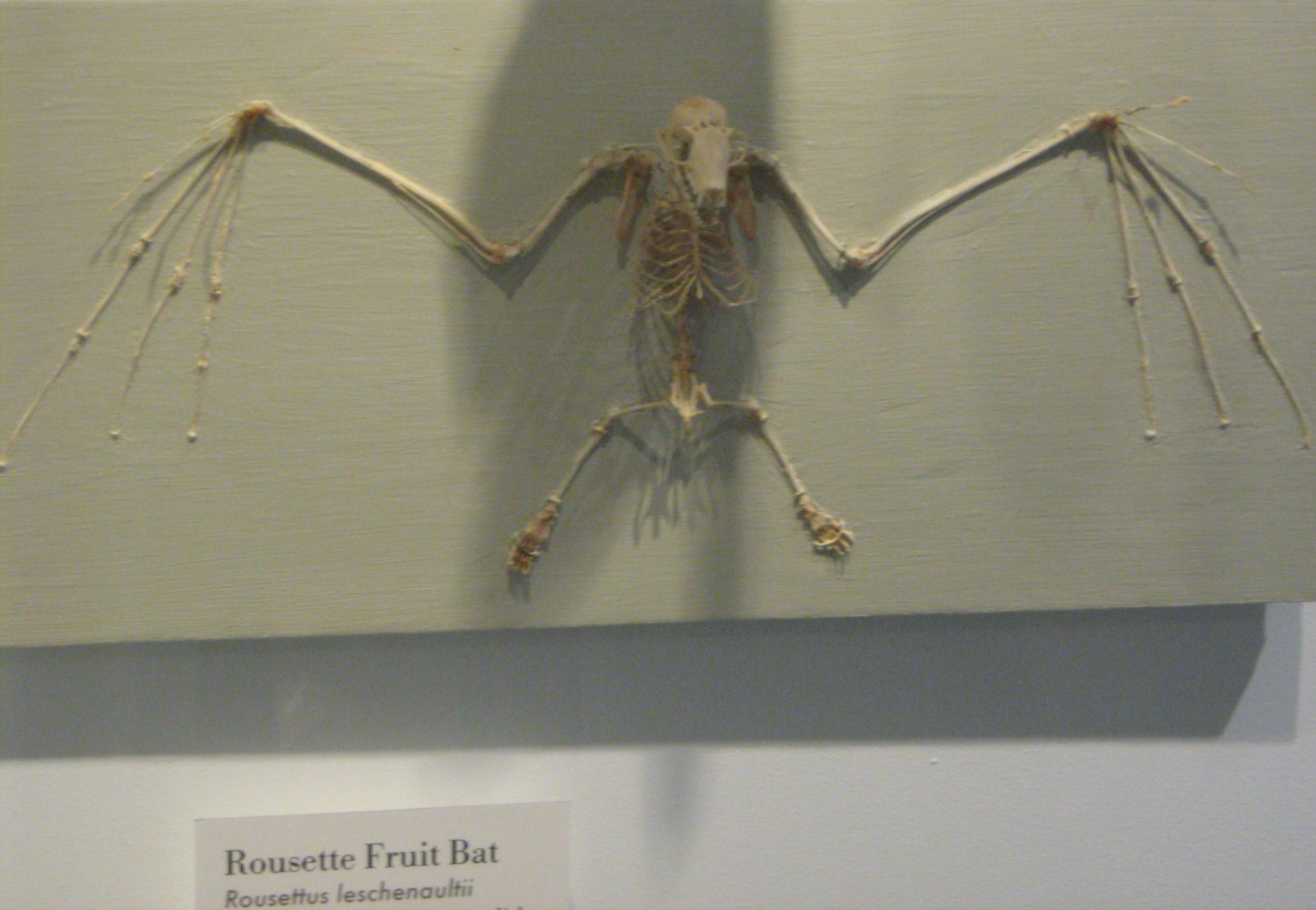 A skeleton of Rousettus leschenaultii on display at the Harvard Museum of Natural History.